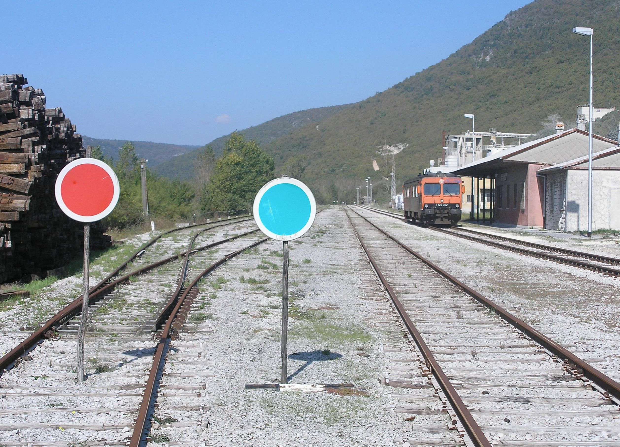 7122 series train (Kalmar Verkstad Y1) in Most Raša station, Croatia